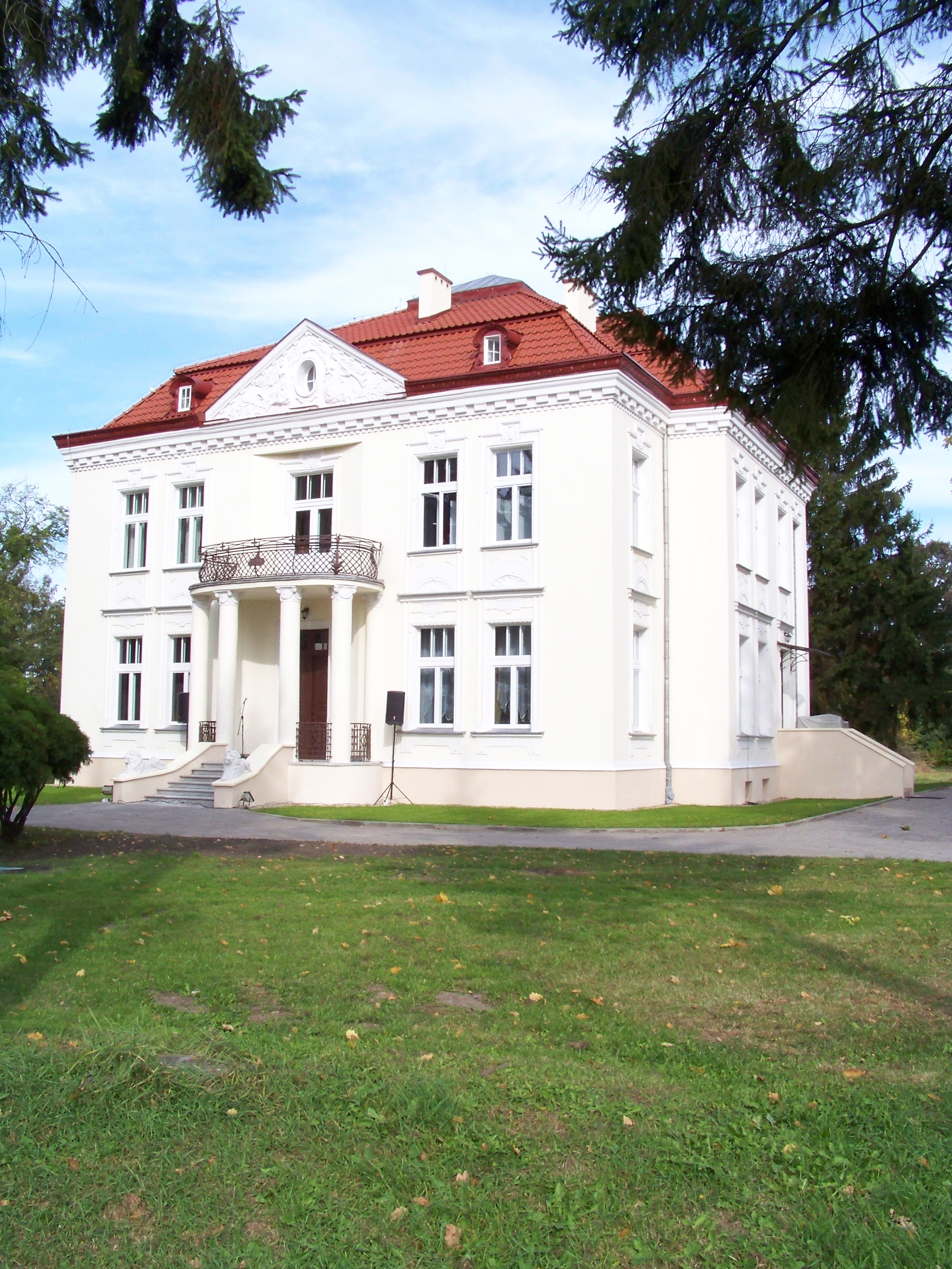 MUSEUM WITOLD GOMBROWICZ in Wsola, branch of the Museum of Literature in Warsaw